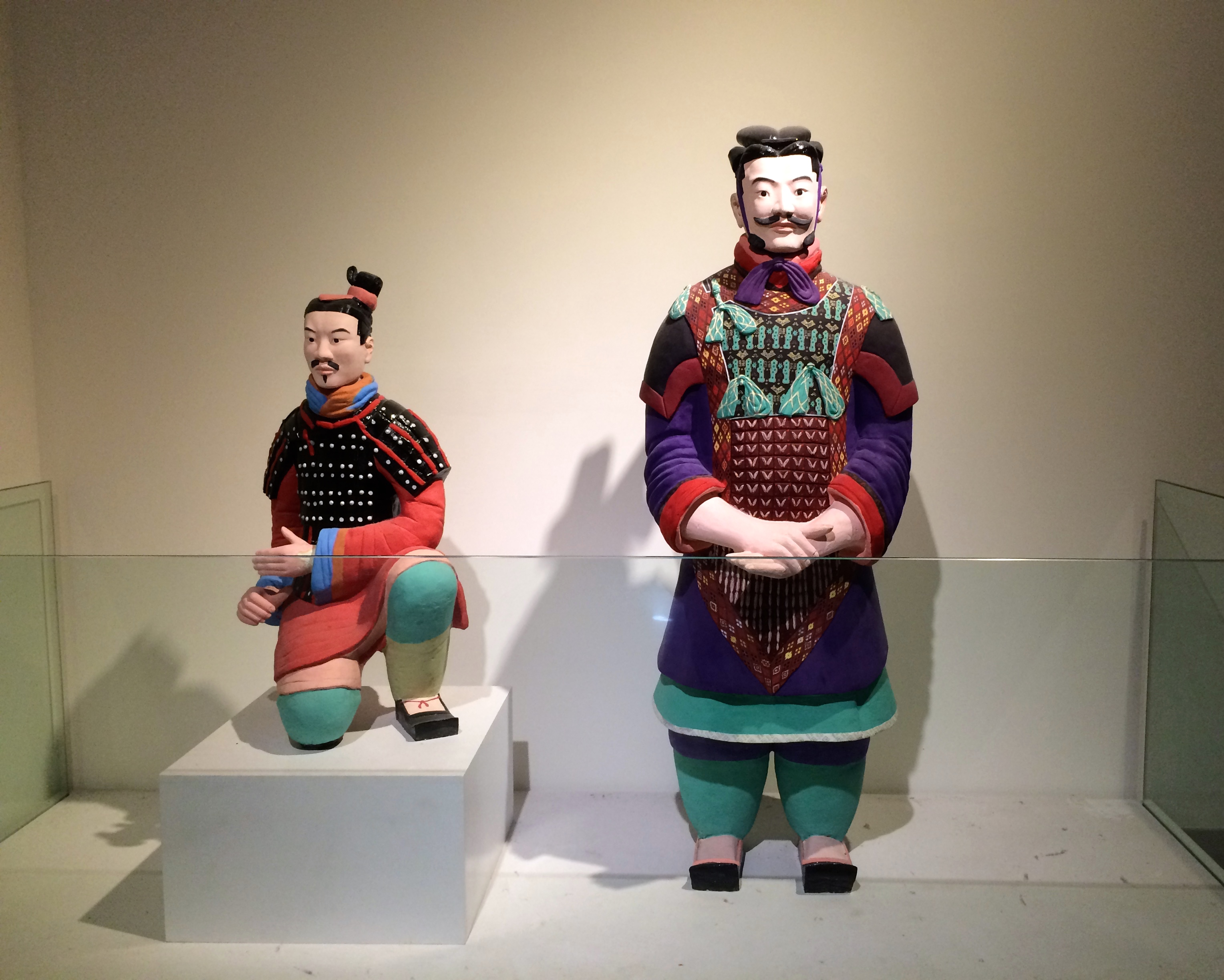 Recreated colored terracotta warriors